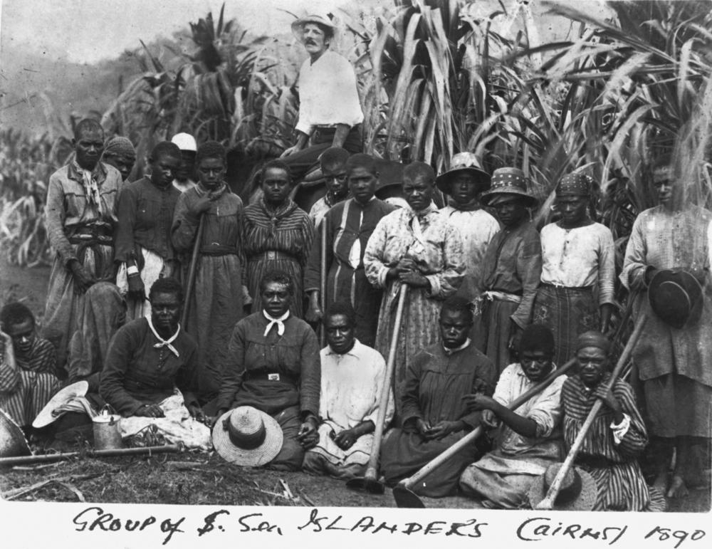 Group of South Sea Islanders, Cairns, 1890 Group of male and female South Sea Islander farm workers on a sugar plantation at Cairns in 1890. Many of the workers are carrying hoes and other farming equipment.